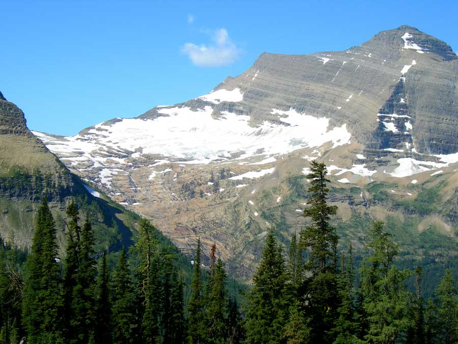 Agassiz Glacier — in Glacier National Park, Montana, as seen in 2005. Kintla Peak, of the Livingston Range, rises above it on the right.